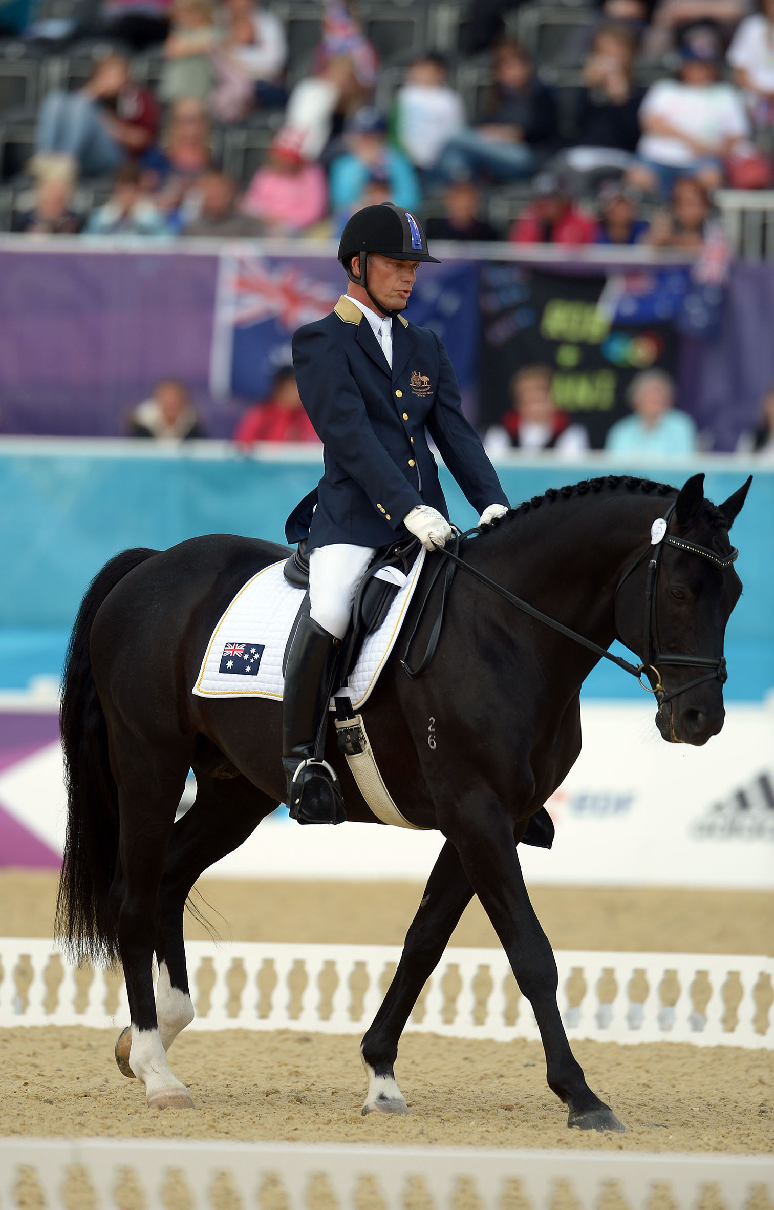 Photograph of Australian Paralympic team member Rob Oakley at the 2012 Summer Paralympic Games in London